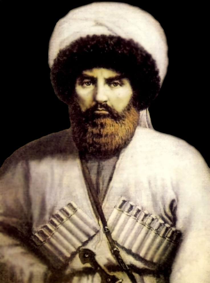 Painting of Imam Shamil - Retouched Image for brtter quality